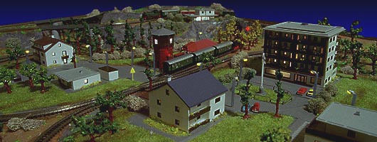 Photo 1998 by J-E Nyström User:Janke A "Night shot" of a coffee-table Z gauge miniature railroad layout. The night sky is added in a photo editing program, thus removing the room surroundings.